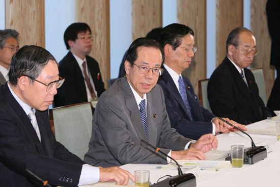 Yasuo Fukuda, Prime Minister, attended a meeting of the Council on the Global Warming Issue with Hiroshi Okuda, Chair of the Council on the Global Warming Issue, at the Prime Minister's Official Residence in Chiyoda Ward, Tōkyō Metropolis on May 26, 2008.